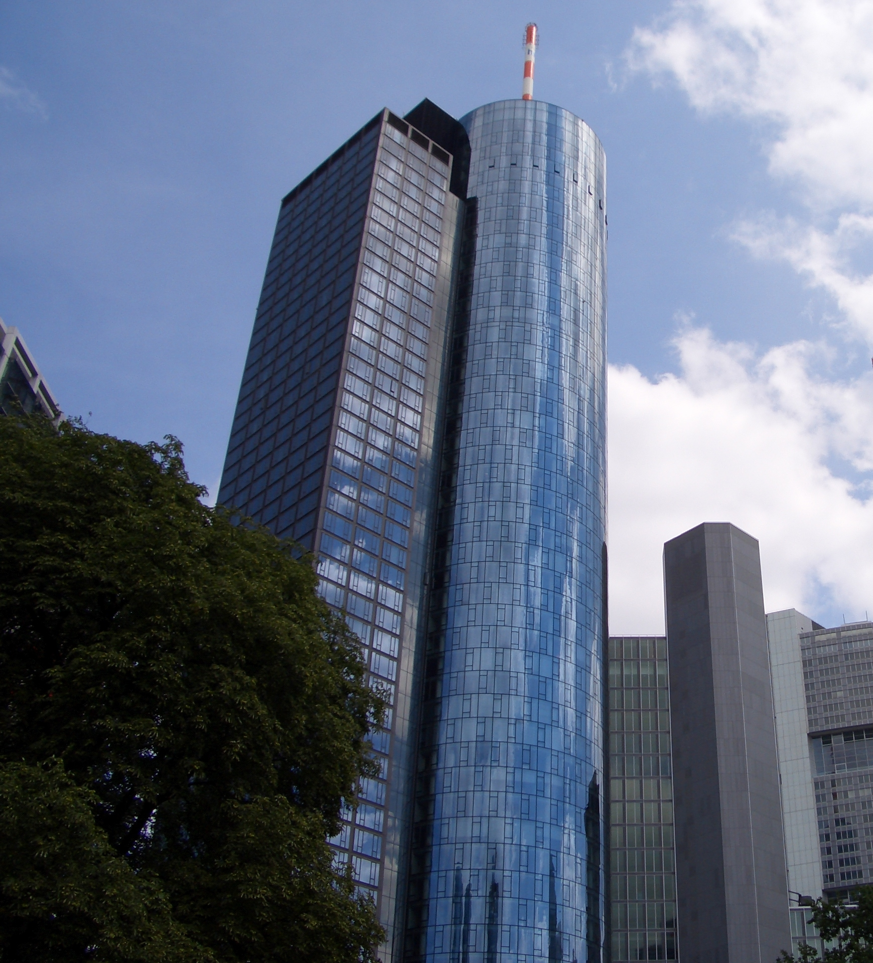 Maintower, von der Taunusanlage gesehen, Maintower, view from Taunusanlage modified by T.h. 12:04, 30 January 2007 (UTC), Source: Image:Maintower (Taunusanlage).jpg